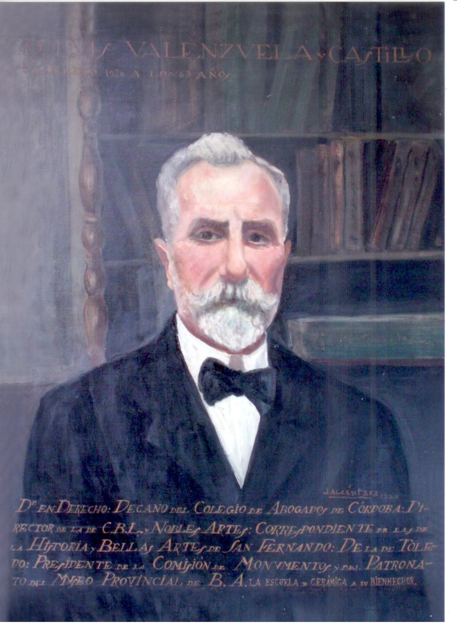 D. Luis Valenzuela y Castillo. Dean of the Law Society of Cordoba (1914 - 1920).